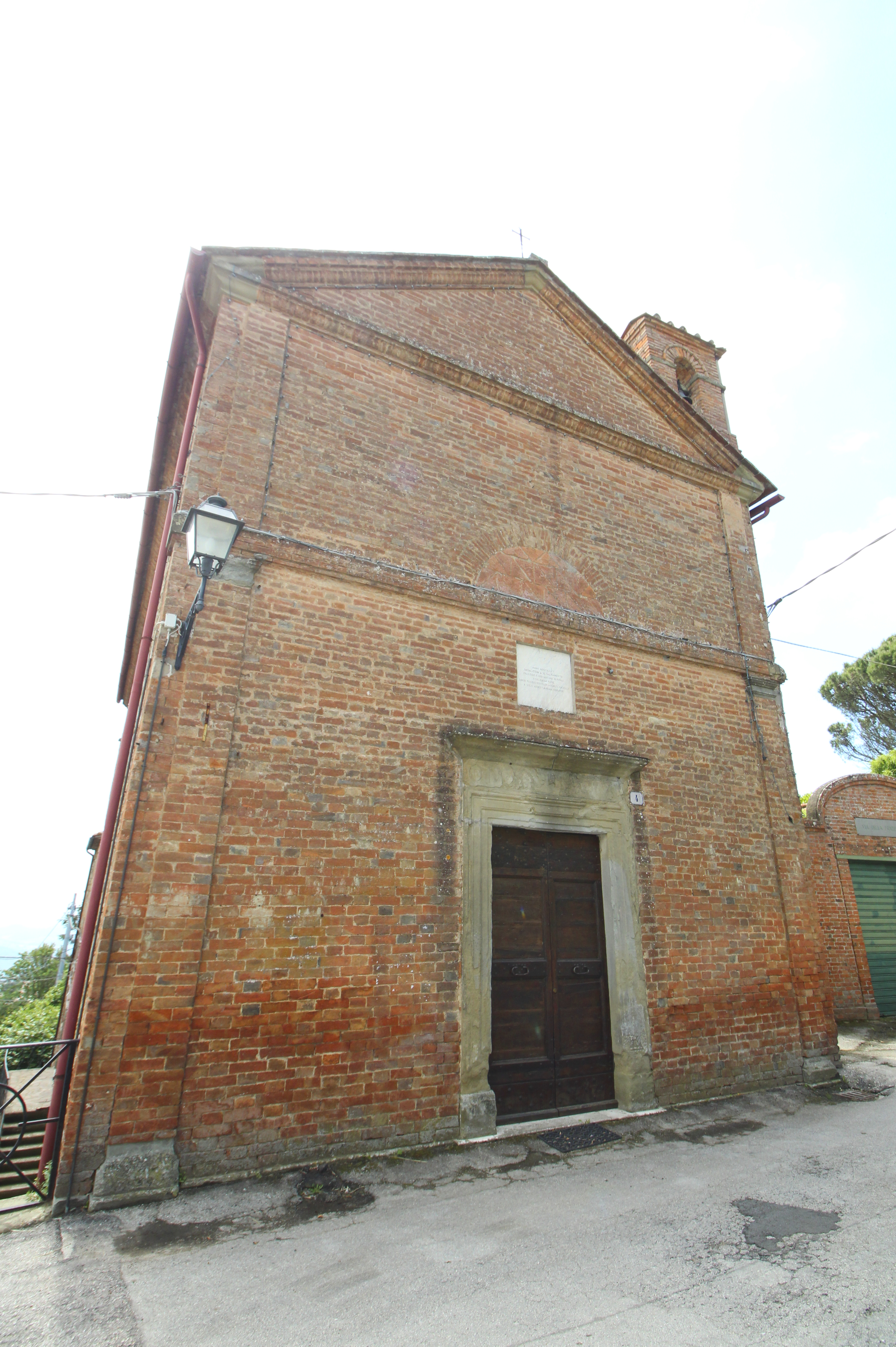 Church Santissimo Sacramento, Castel Rigone, hamlet of Passignano sul Trasimeno, Umbria, Italy